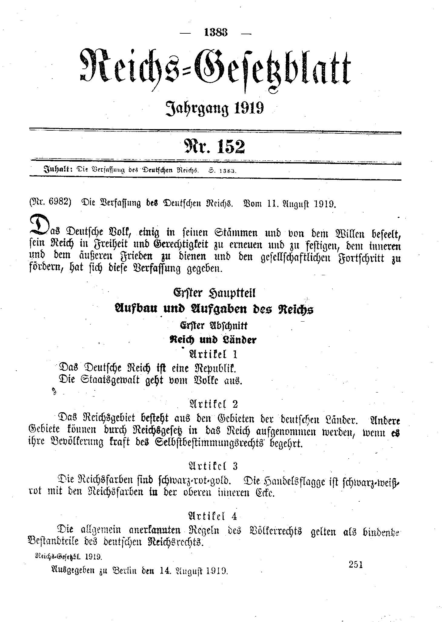 this is a scan of a historical document